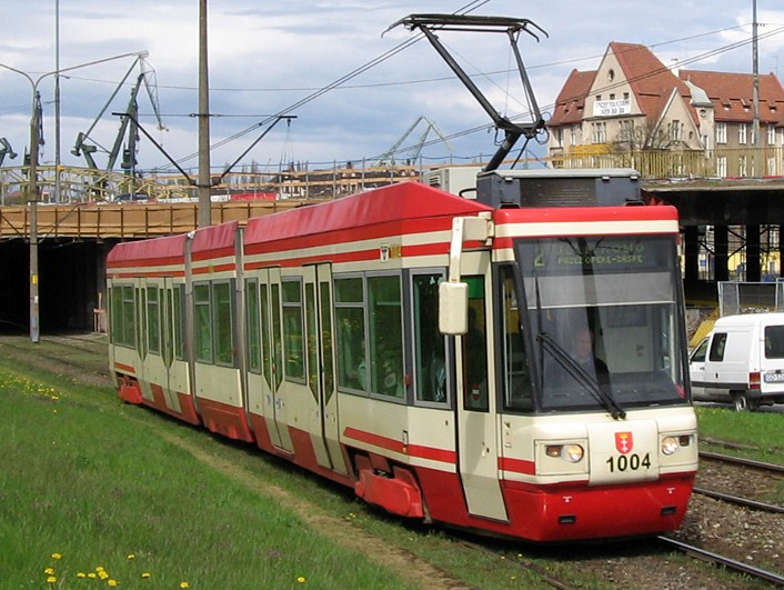 An Alstom Konstal NGd99 #1004 tram in Gdańsk.